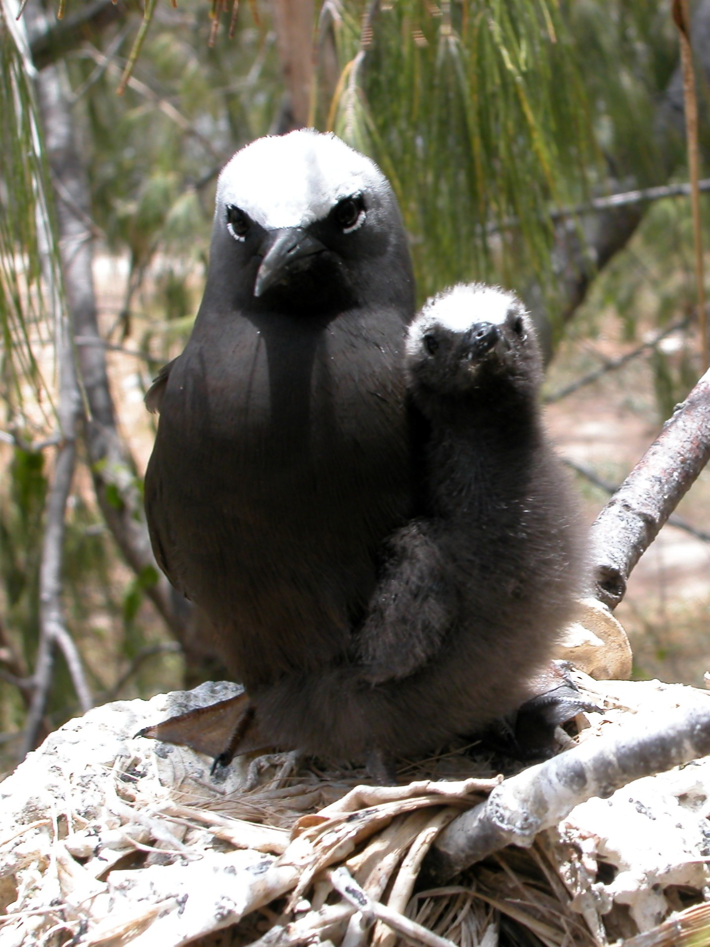 Black Noddy Anous minutus, with chick.